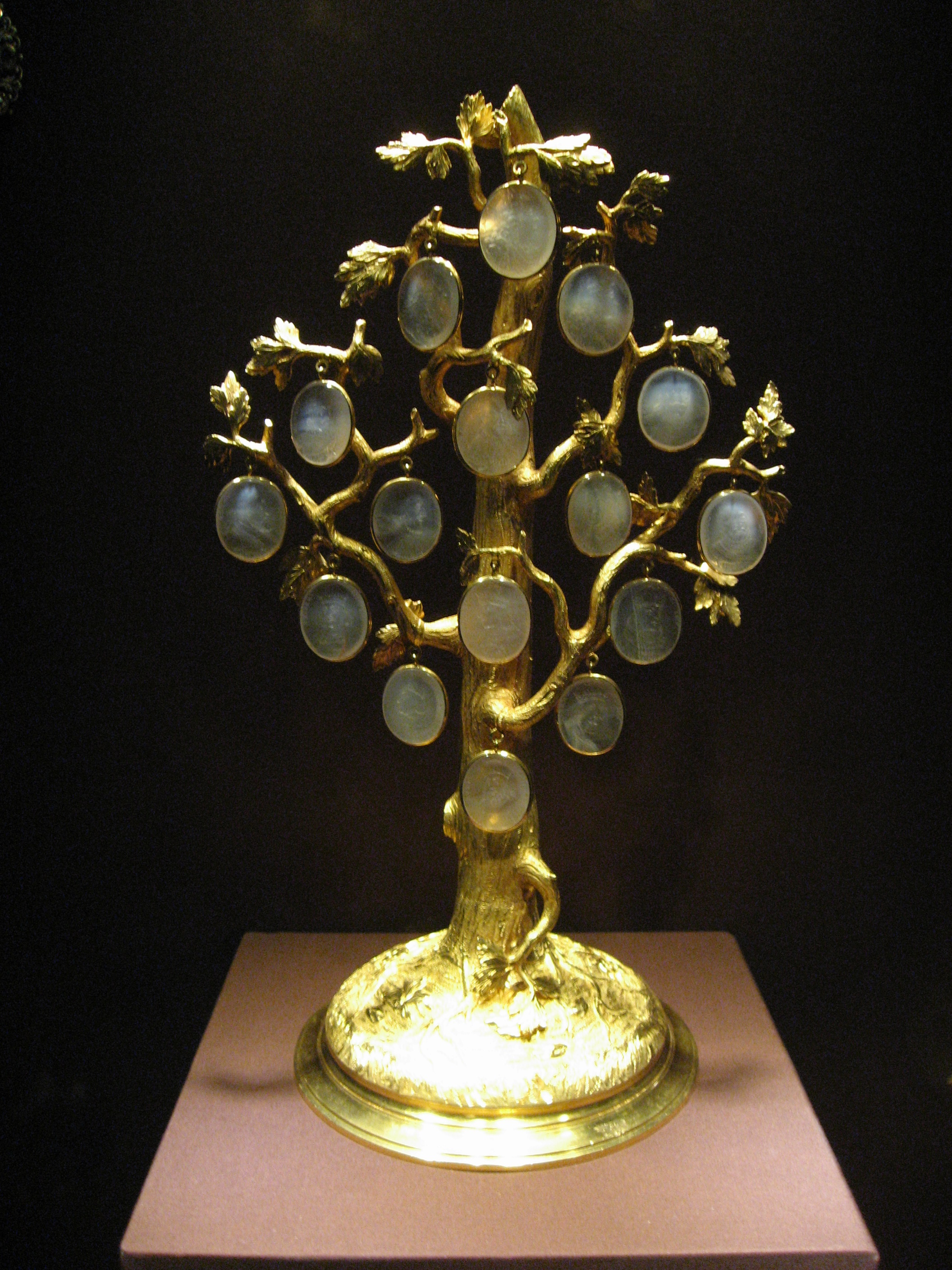 Family Tree of the Kings and Emperors of the House of Hapsburg Tree: Vienna, about 1725/30 Intaglios: Christoph Dorsch (1878-1732), Nuremberg Gold, chalcedony 29.2 cm high, 17.4 cm wide SK Inv. No. XII 783